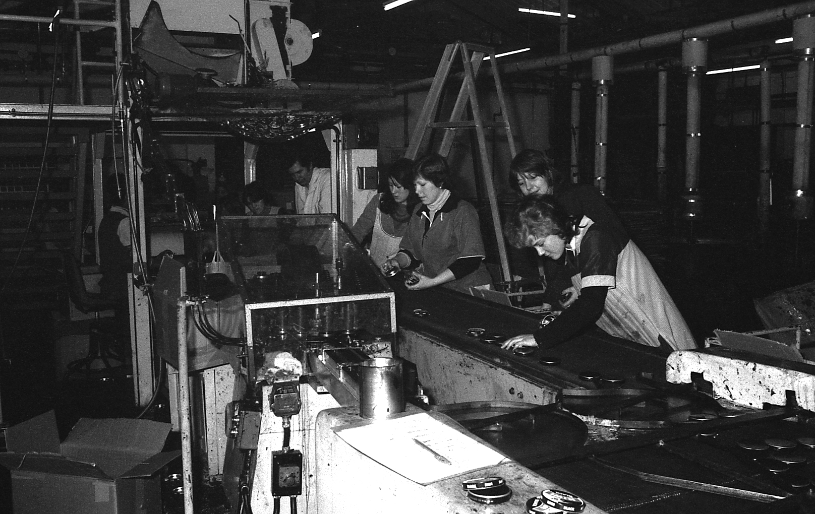 K&M Candles Brockholes UK, 1972 (RLH), Shoe Polish Production Line